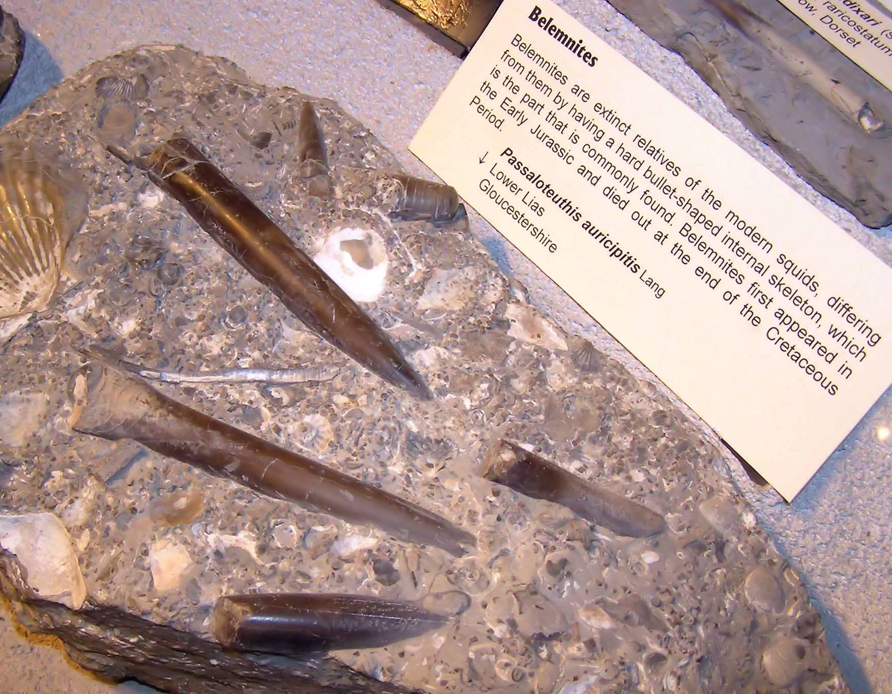 Belemnites (here Passaloteuthis auricipitis), at Bristol Museum, Bristol, England. Found in the Lower Lias strata, Gloucestershire, England.